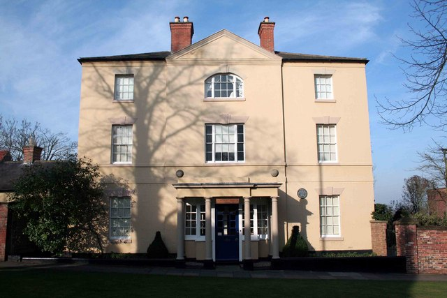 Burgage Manor Home of Lord Byron , but not for long 1803 to 1808 it says.